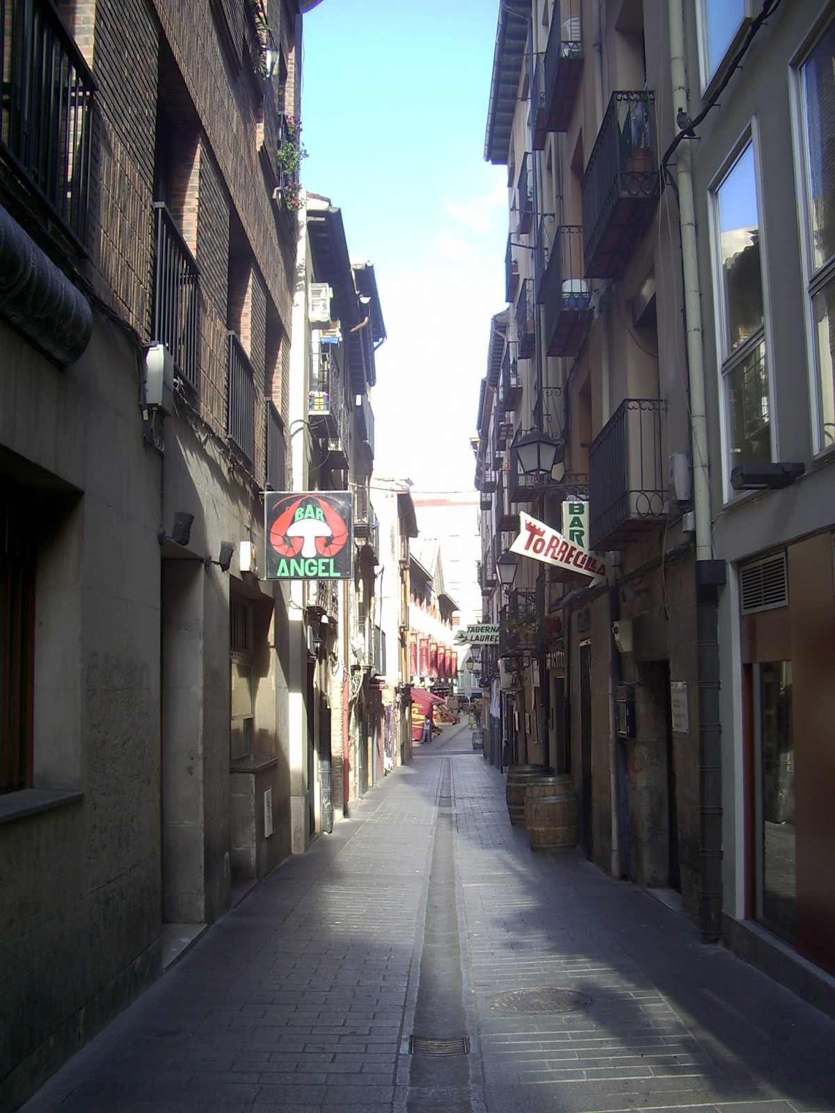 View of Laurel Street in Logroño, Spain, in a rare moment of pacefulness. Laurel Street is one of the places with more concentration of bars in the city, and also a typical "tapas" place.